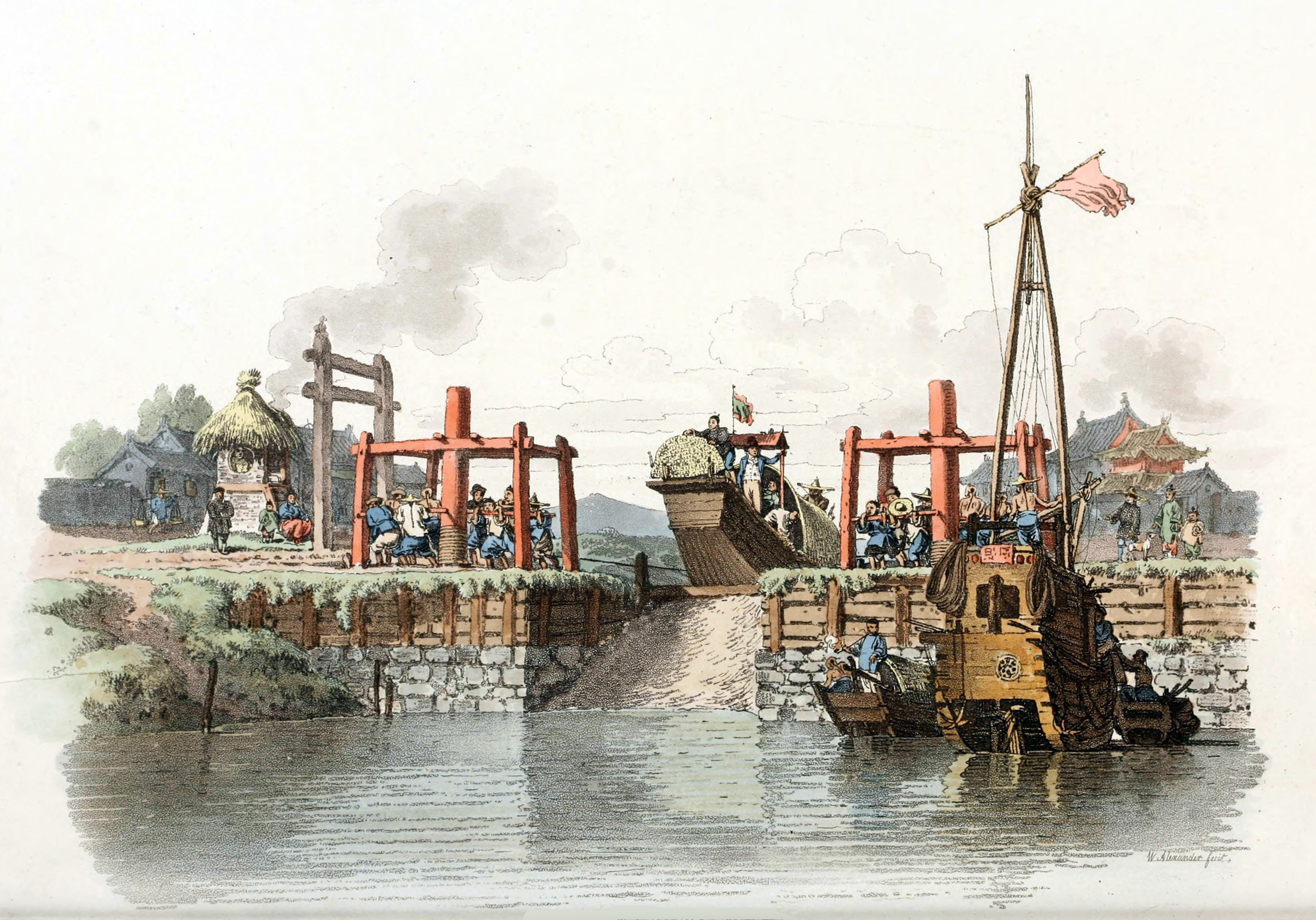 Drawing by William Alexander, draughtsman of the Macartney Embassy to China in 1793. A canal lock which the Embassy passed on November 6, 1793, during the travel from Han-tcheou-fou to Tchu-san. The drop of water was six foot; the water ended within one foot of the upper edge of the beam over which the flat-bottomed river boat had to be pushed. The lock consisted of a double glacis of sloping masonry, with an inclination of about forty degrees from the horizon. The pushing machinery was represented by two capstans in this particular lock, in other locks, four or six could be used. Alexander noted that canals were used as a preferred means of transportation and communication in the mountainous areas of China. Image taken from The Costume of China, illustrated in forty-eight coloured engravings, published in London in 1805.